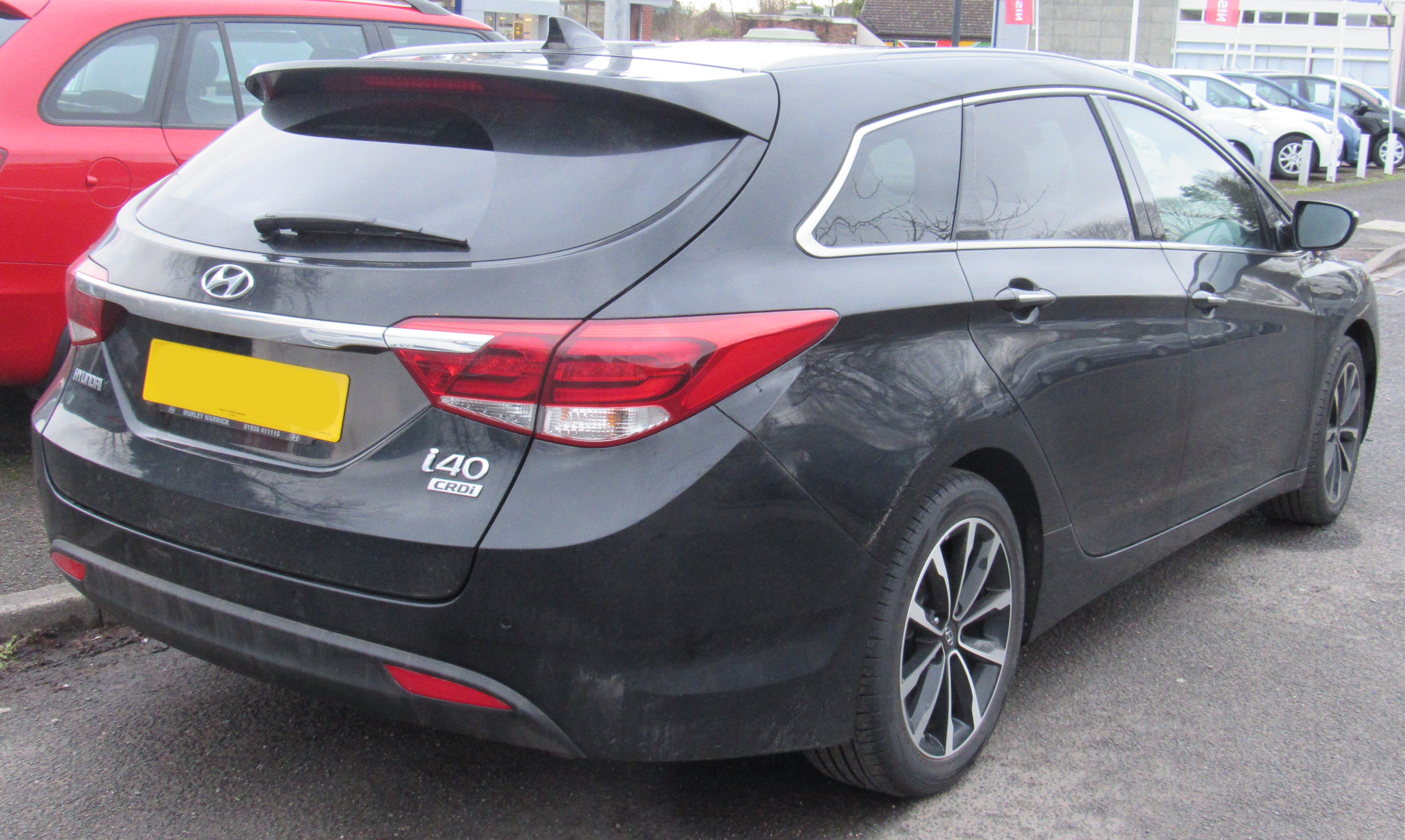 2017 Hyundai i40 SE CRDi Estate facelift 1.7 Rear Taken in Warwick